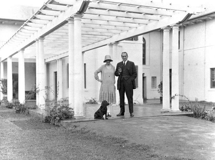 Prime Minister Stanley Bruce with wife Ethel Bruce at the lodge. The first Prime Minister and family to live in the Lodge.